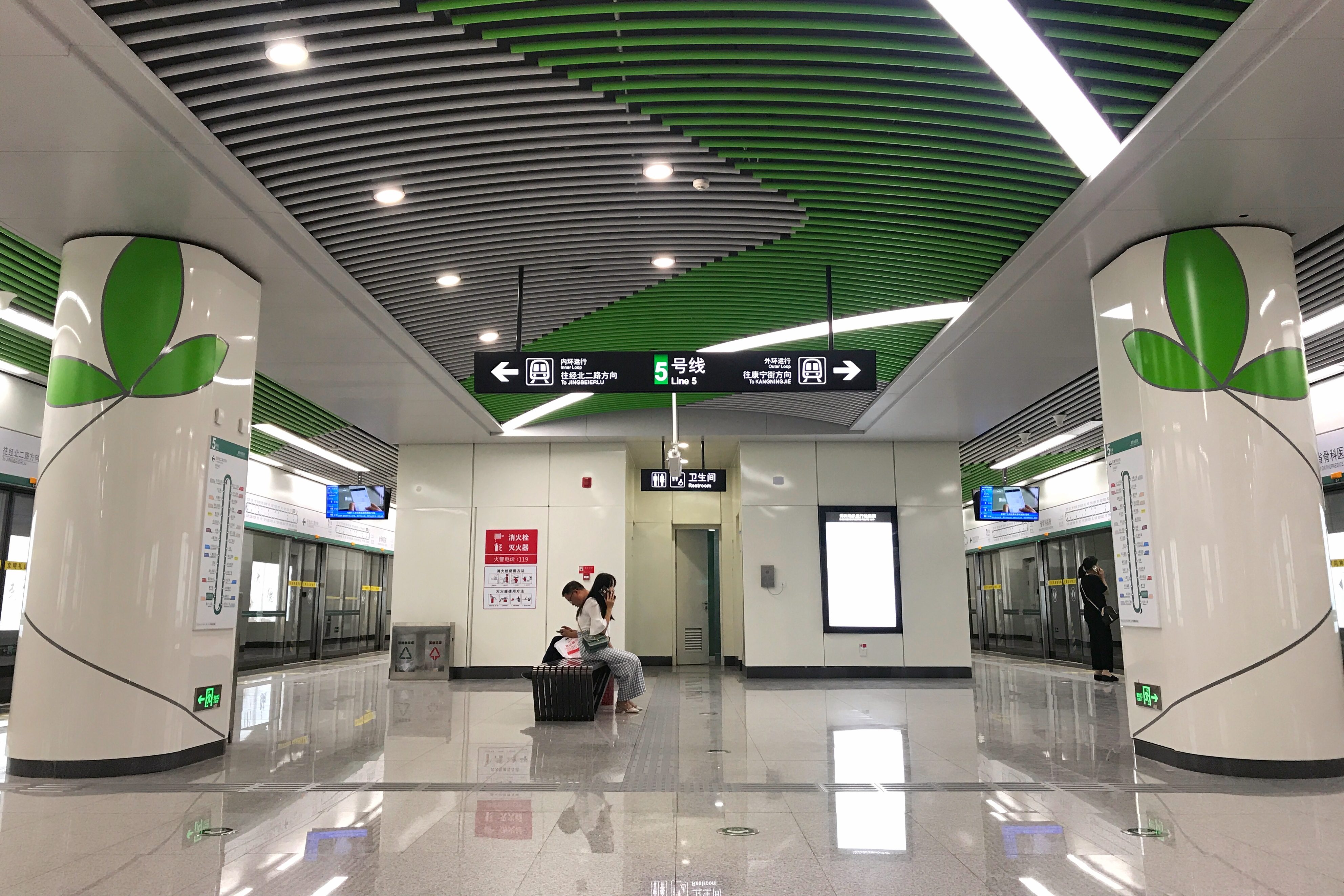 Platform of Henan Orthopaedics Hospital Station